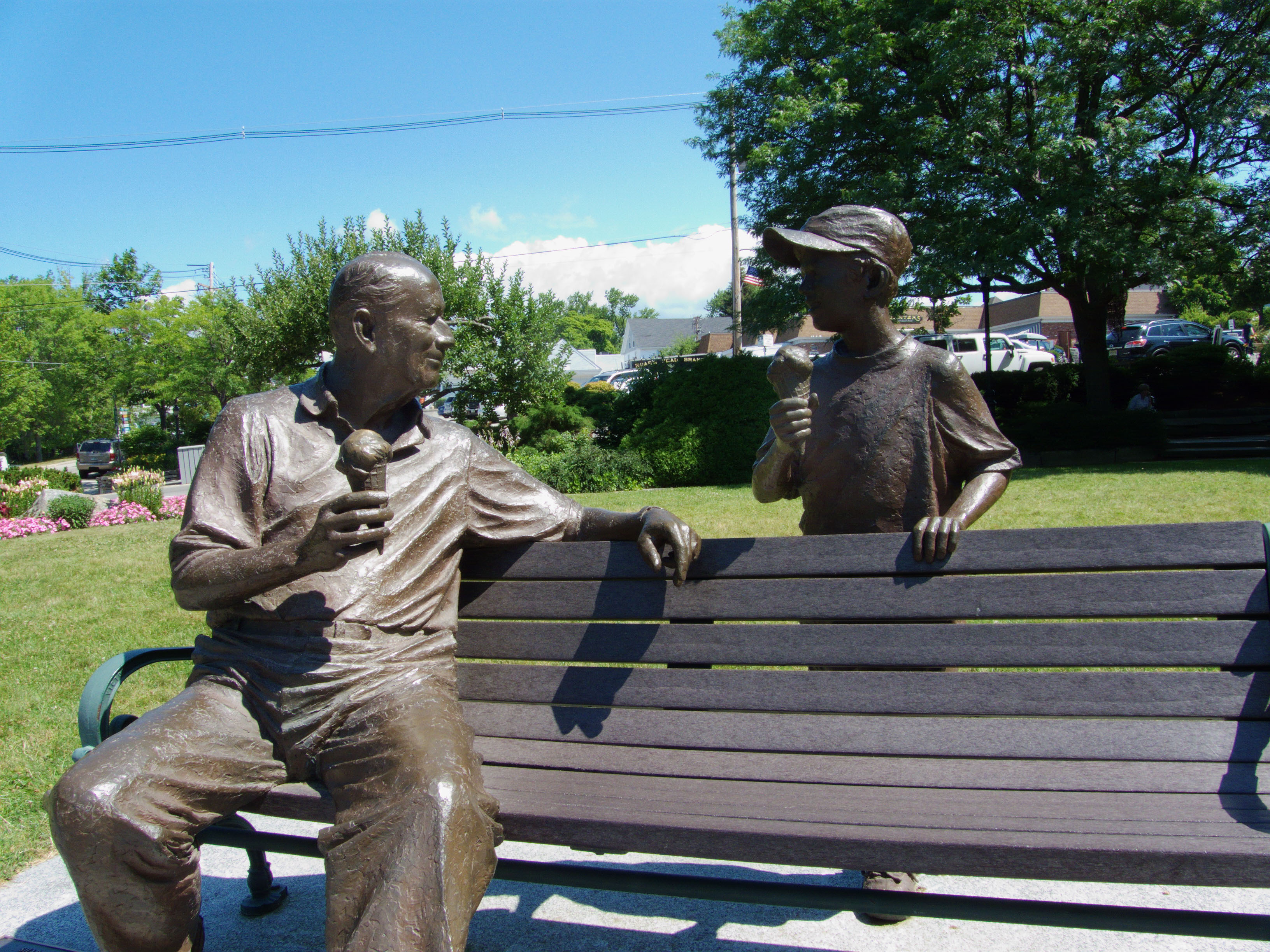 This life-size bronze sculpture of a grandfather enjoying an ice cream cone with his grandson is a greatly enjoyed attraction in Cade Park, adjacent to the waterfront of Lake Winnepesaukee, in Wolfeboro, New Hampshire.